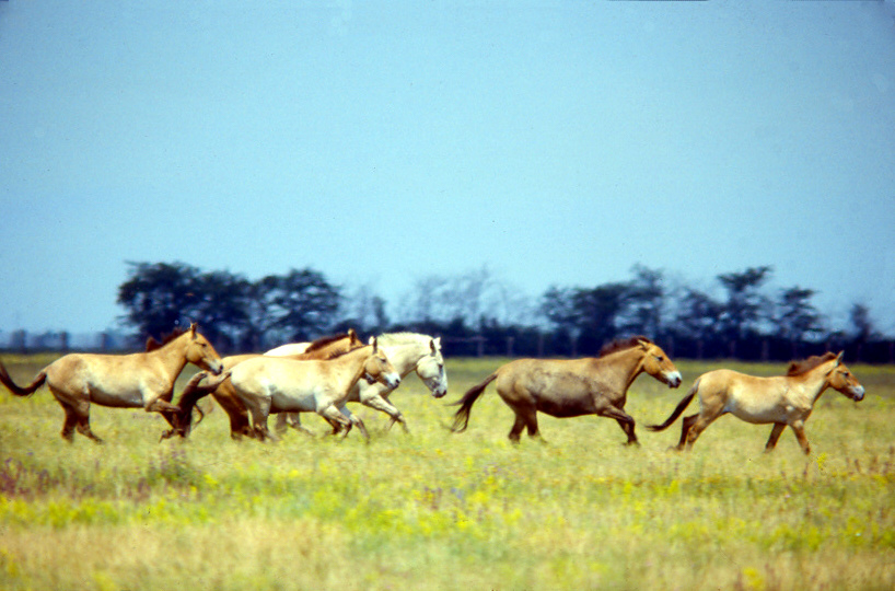 Przewalski's Horses - Askania Nova, a biosphere reserve (sanctuary) located in Kherson Oblast, Ukraine